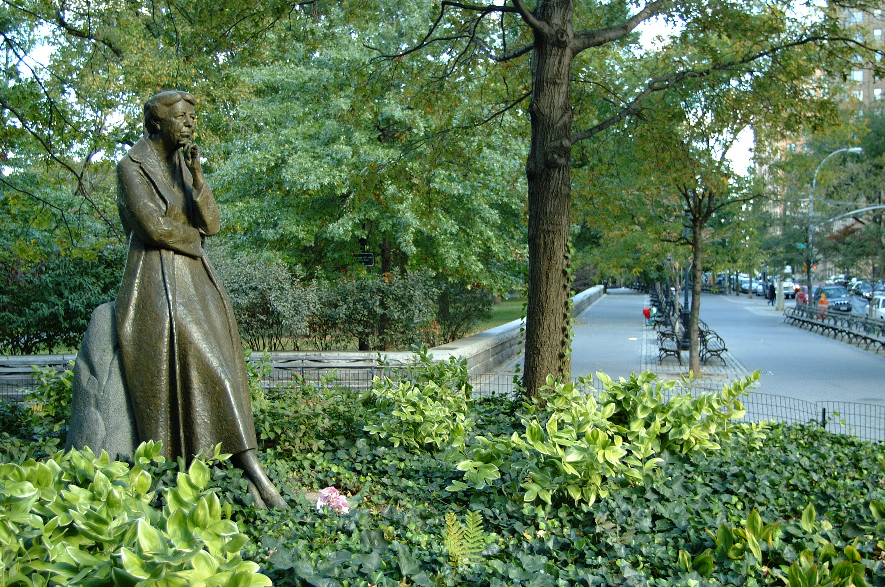 Riverside Drive, Manhattan; looking north from the southernmost end of Riverside Drive at 72nd Street, with the Eleanor Roosevelt memorial sculpture by Penelope Jencks at left.